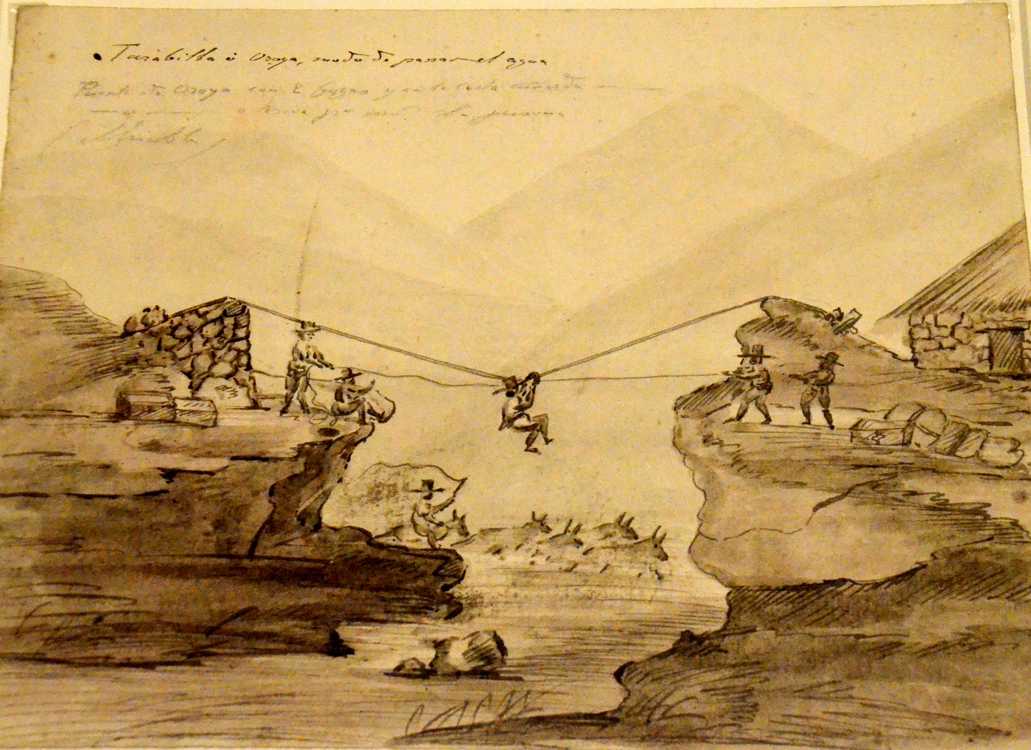 Museo de Arte de LIma "MALI" - "oroya" or basket to cross rivers hanging from a rope. anonimous - Watercolor on paper - circa 1827- 1841